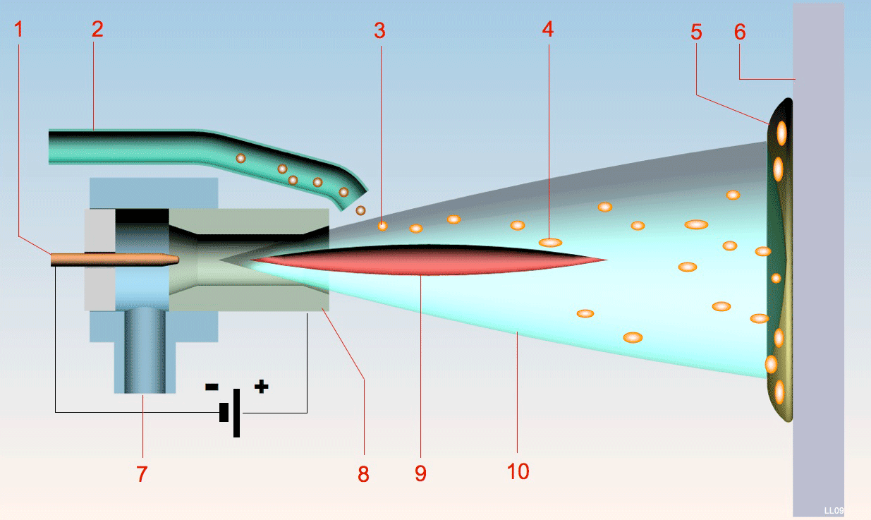 Plasma spray process. Schematic cross-section of a typical atmosphere plasma spray process. 1 Cathode. 2 Powder supply. 3 Powder particles. 4 Melted powder particles. 5 Splat 6 Substraat. 7 Fuel gas supply. 8 Anode. 9 Plasma arc. 10 Flame with melted powder particles.